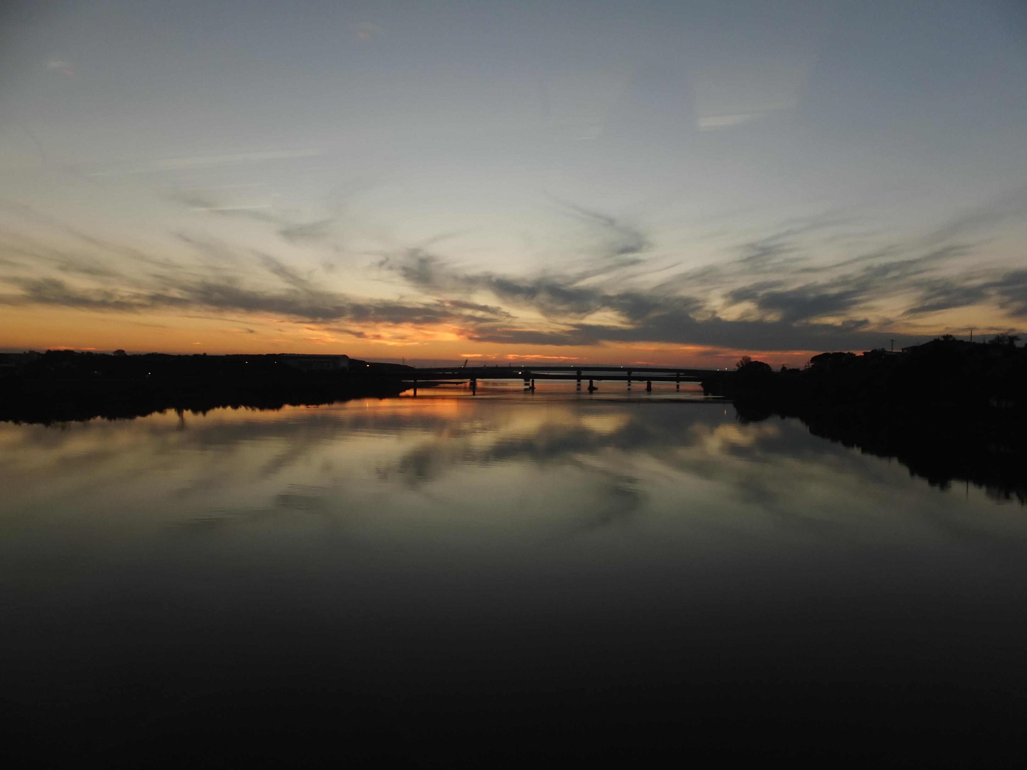 Sunset of the Yoneshiro River, Japan; from train of the Gonō Line